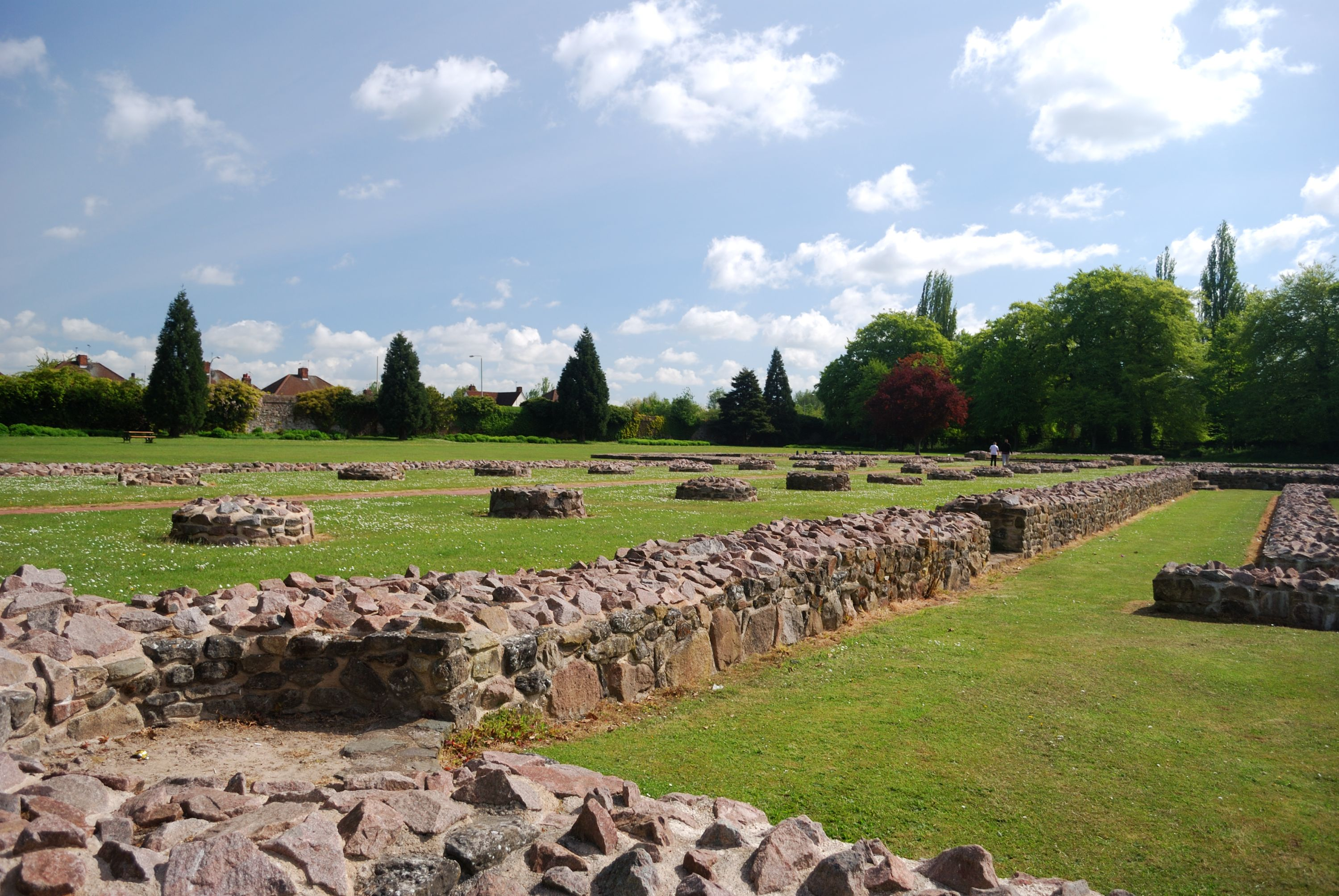 Ruins of Leicester Abbey, Abbey Park, Leicester. The nave of the abbey church is seen on the left, and the cloister is on the right.